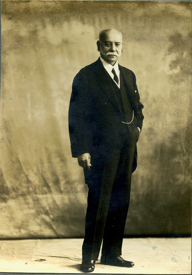 Chatchick Paul Chater